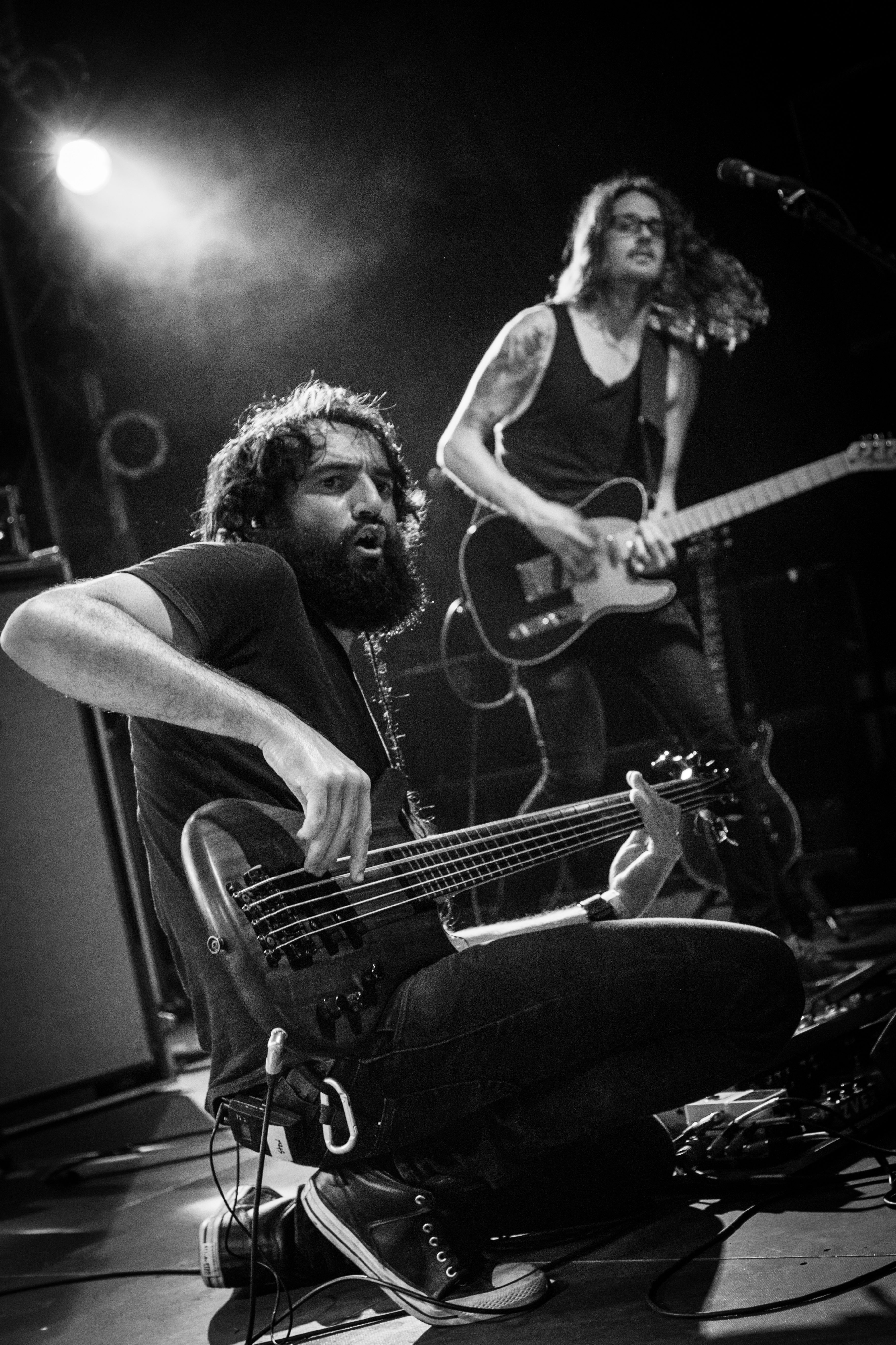 Dead Letter Circus live at the Euroblast Festival in Cologne, 2016